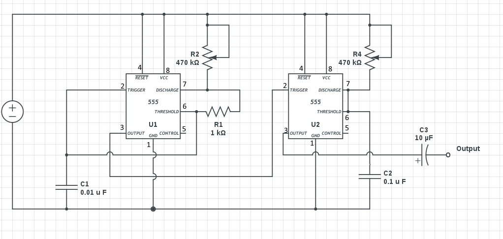 Implementacion de Atari Punk Console con dos 555